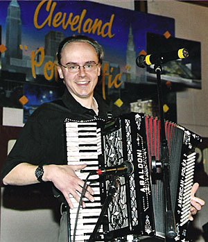 Mike Schneider. Taken at Tony Petkovsek's Thanksgiving Polka Party (Cleveland, OH) November 2006.